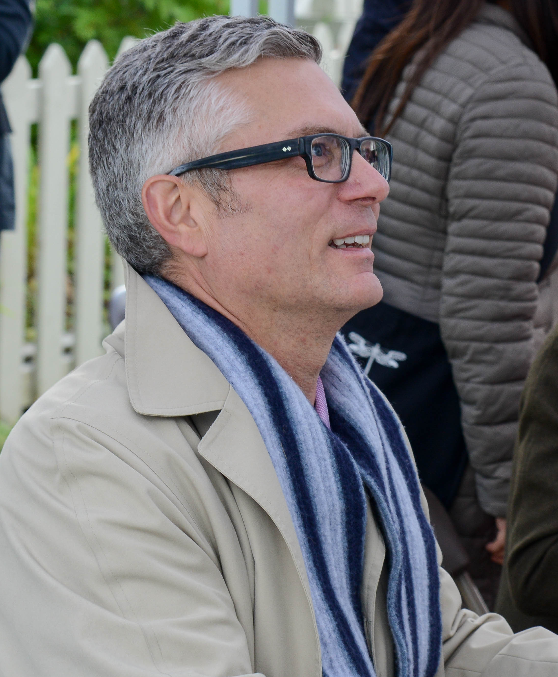 Andrew Pyper at the Eden Mills Writers Festival in 2015